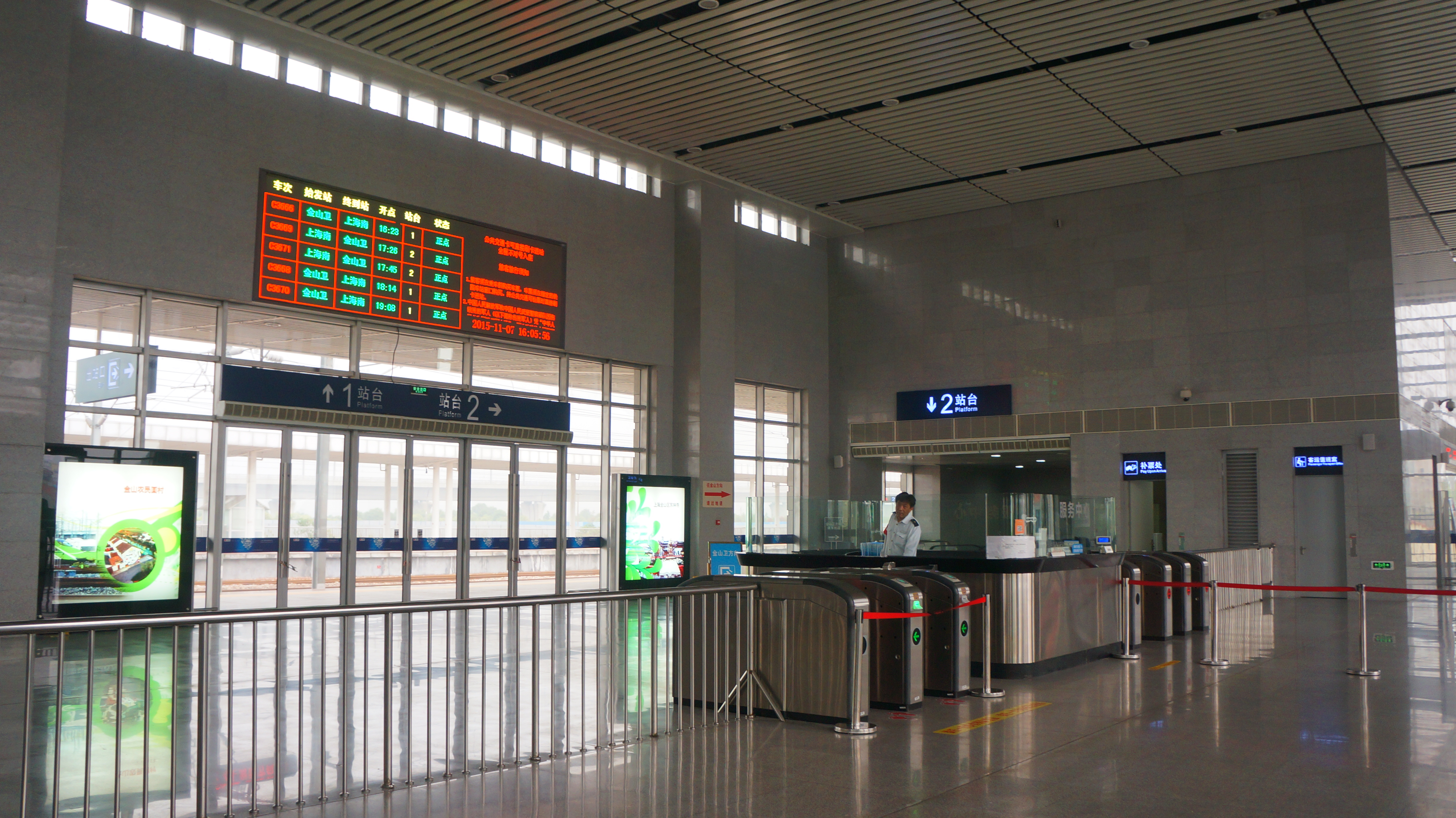 The waiting area of Xinqiao Railway Station in Shanghai-Kunming Railway Station and Jinshan Intercity Railway, mainly used for Jinshan Intercity Railway.